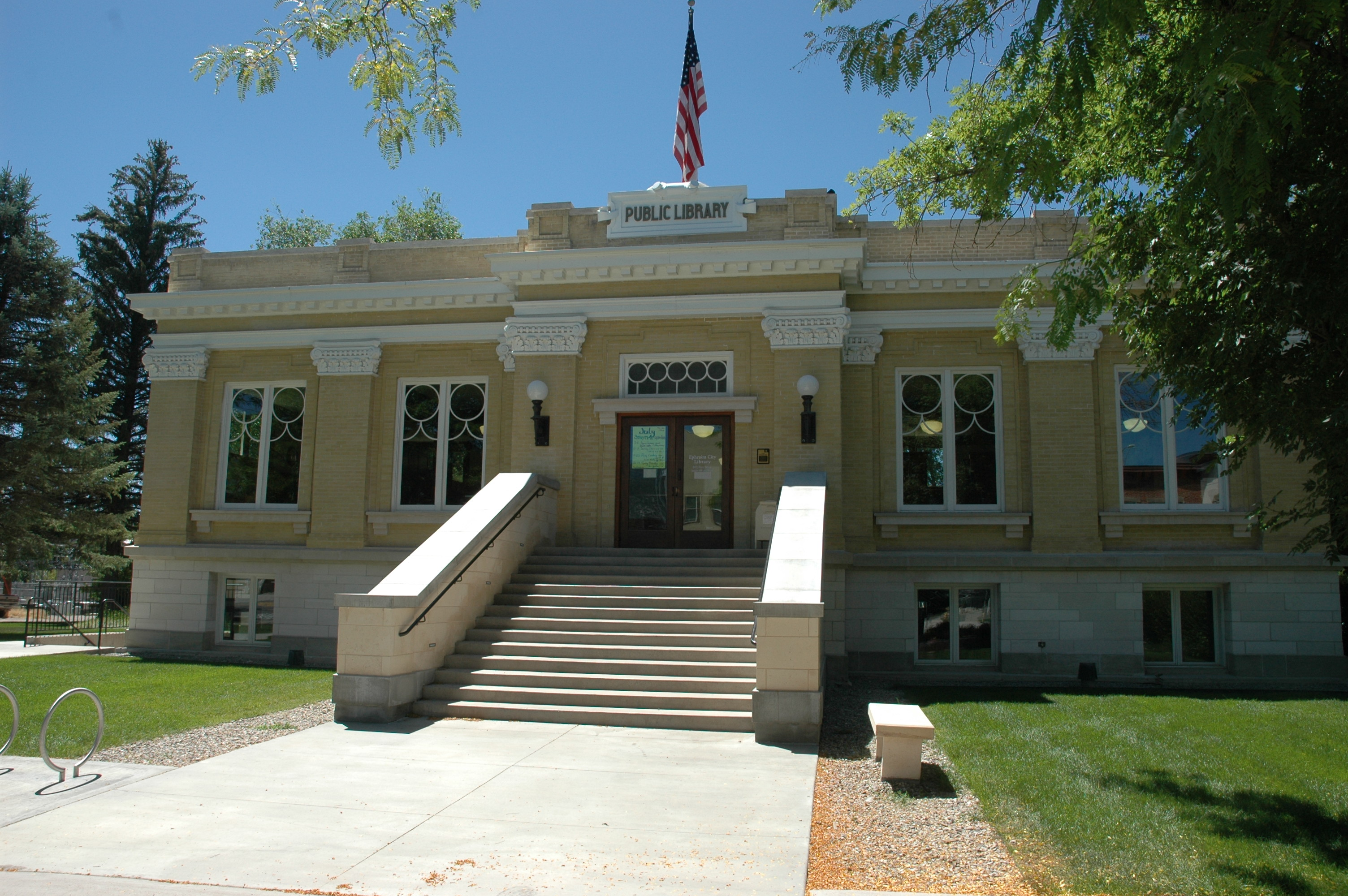 Ephraim Carnegie Library, a historic building in Ephraim, Utah, United States, was built in 1915 as a Carnegie library.